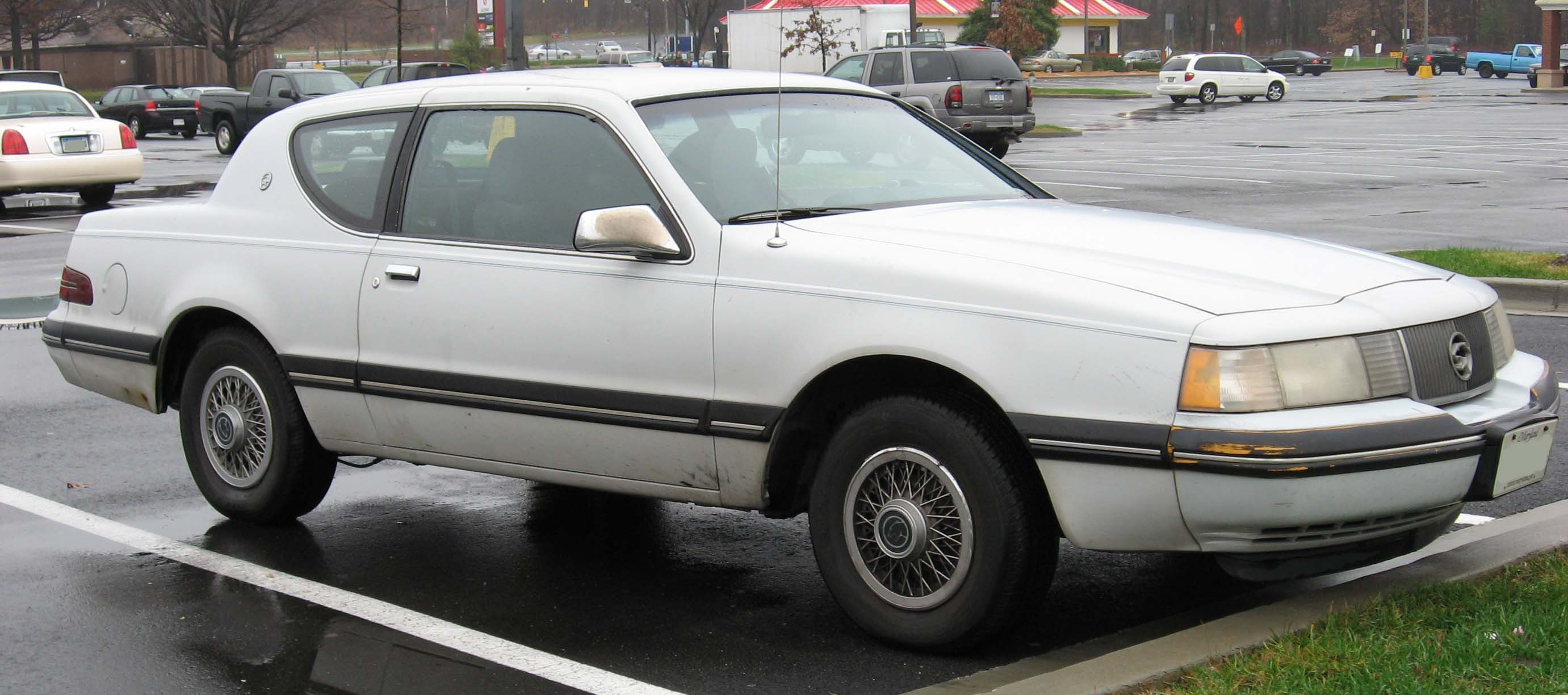 1987-1988 Mercury Cougar photographed in USA.